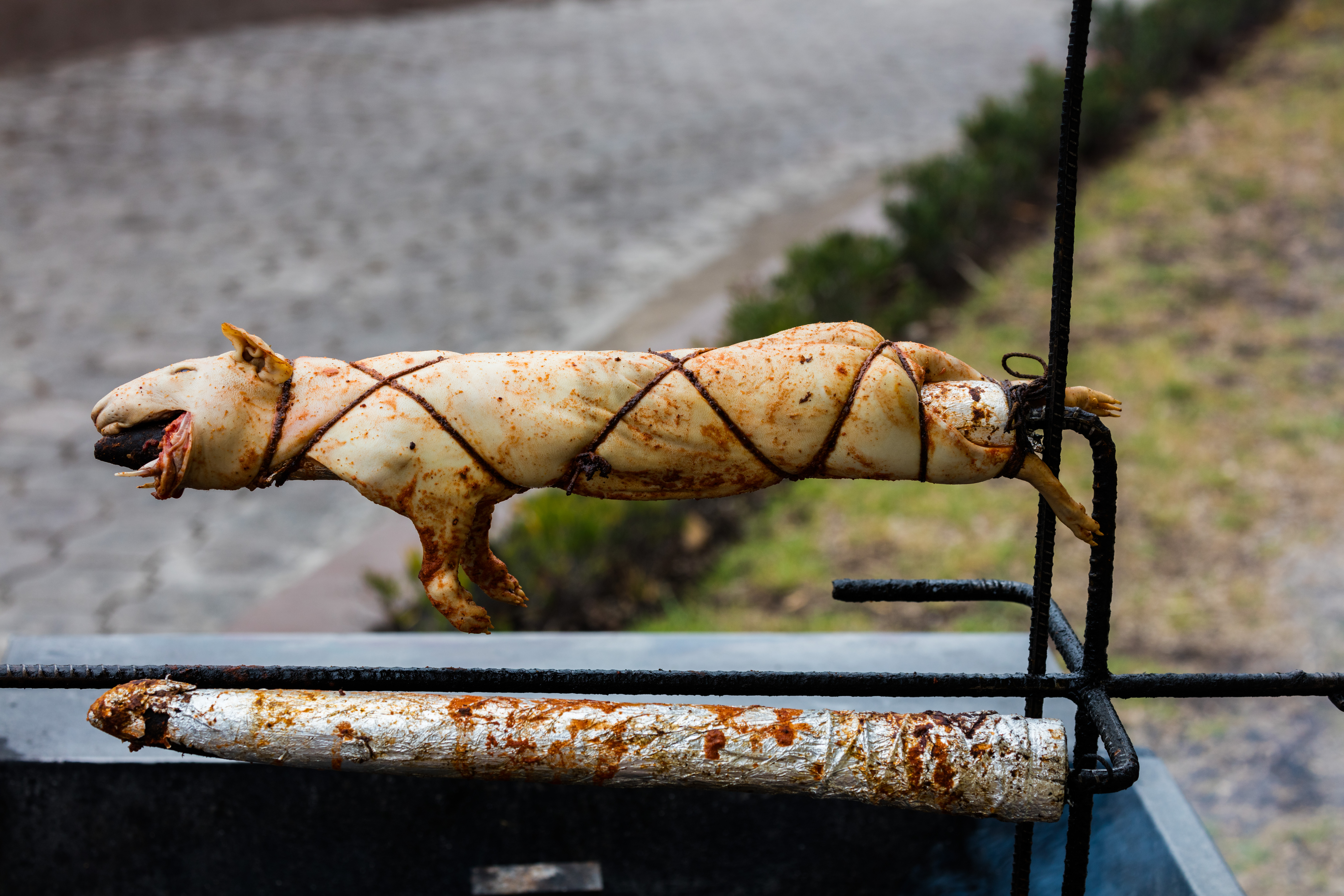 Cooking of Guinean pig (Cavia porcellus), Quito, Ecuador